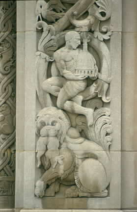 Bank of Lansing in Lansing, Michigan. Image - Subject